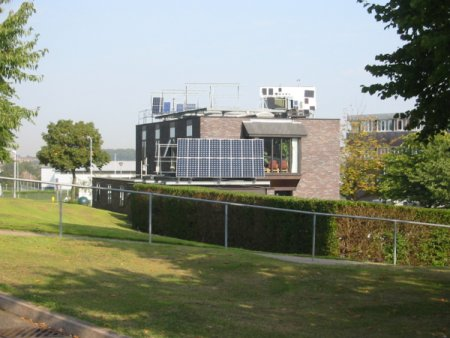 Angela Marmont Renewables Energy Engineering Lab, Ronald Donnelly